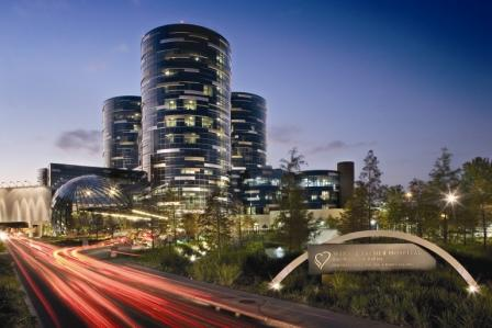 Winnie Palmer Hospital for Women & Babies